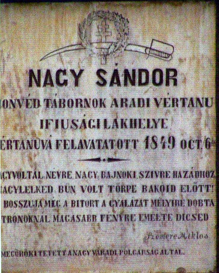 Memorial Nagy Sándor martyr from Hungarian Revolution of 1948/49